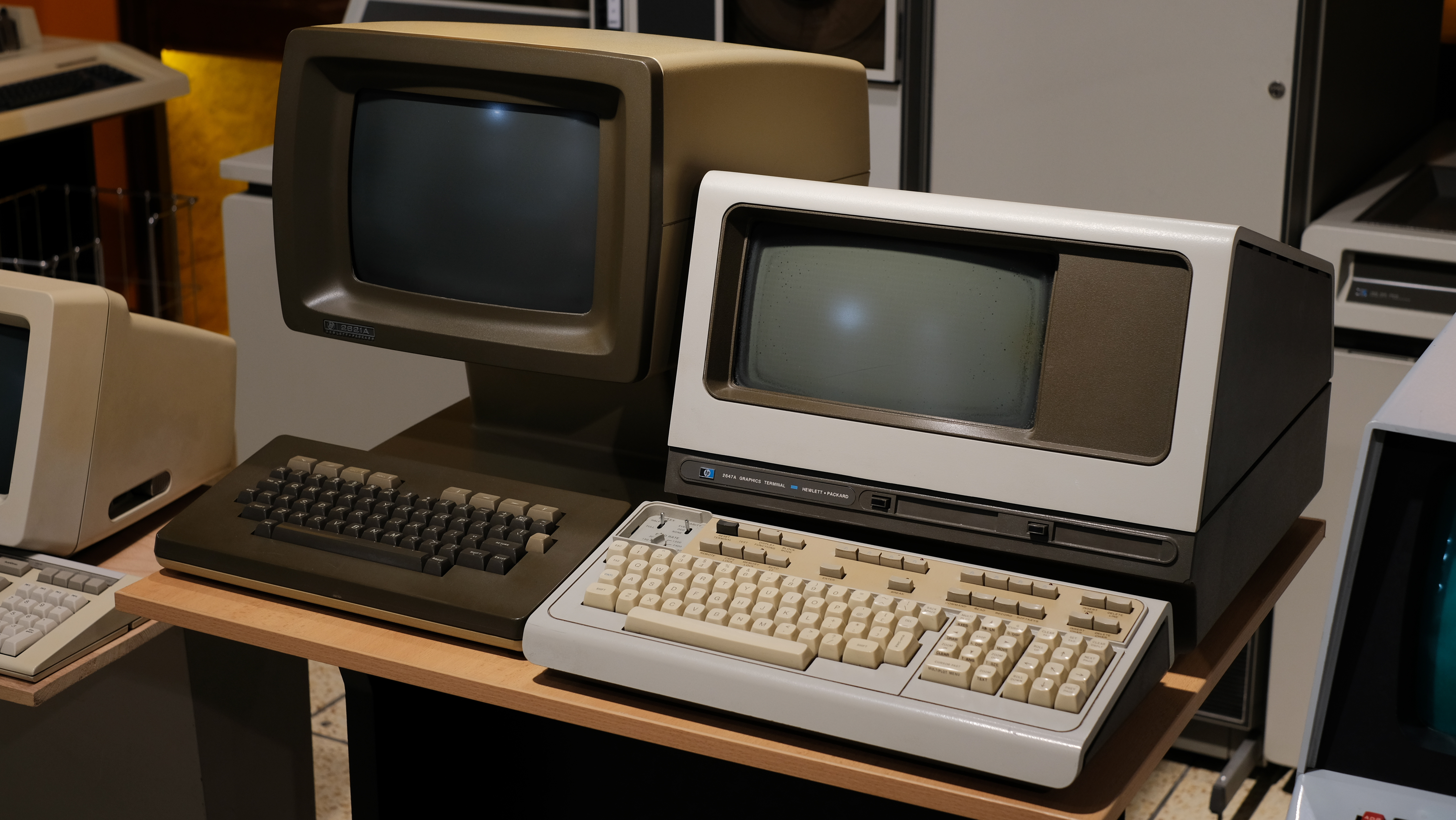 HP 2621A and HP 2647A terminals, exhibits in Technical Museum of Brno.